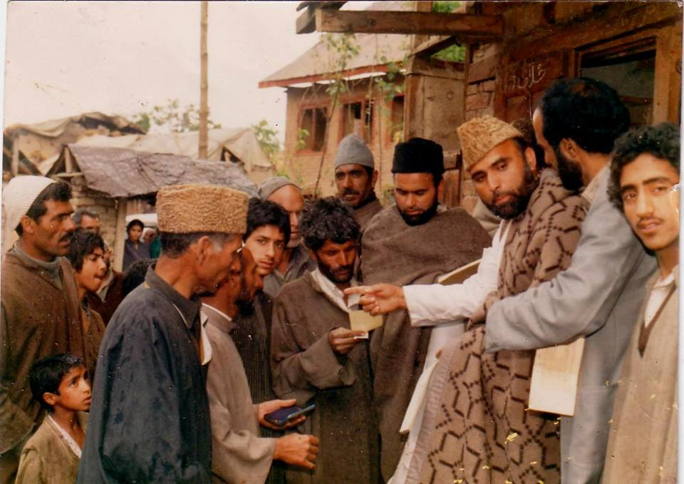 Qazigund